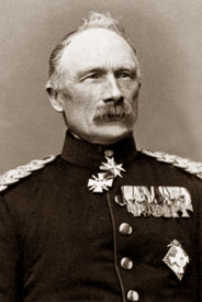 General of the Infantry Philipp von Canstein, (1804-1877)